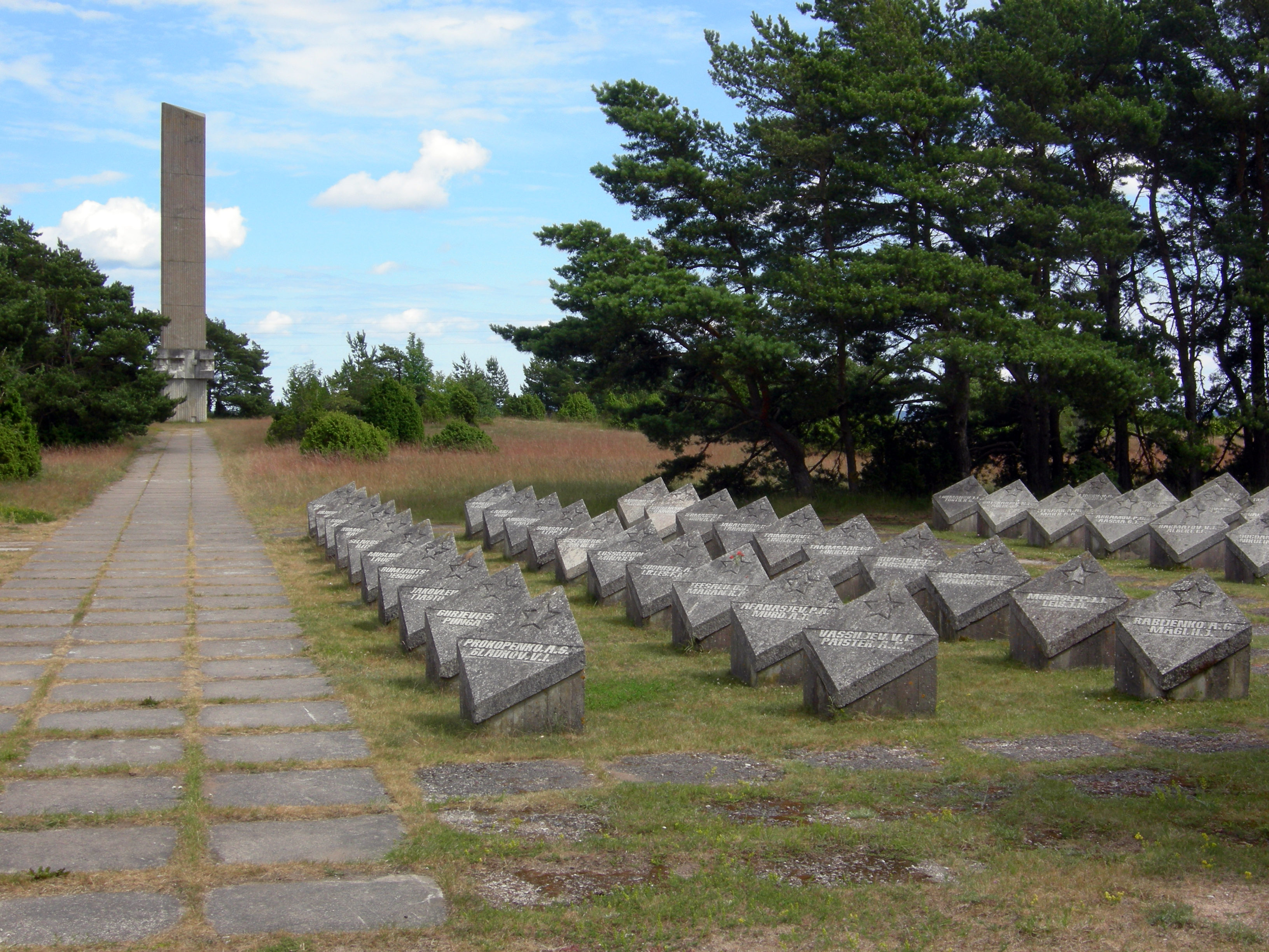 Tehumardi Battle Monument and Cemetery (Soviet); Saaremaa, Estonia.